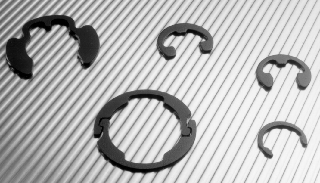 A collection of the most common types of radially installed retaining rings